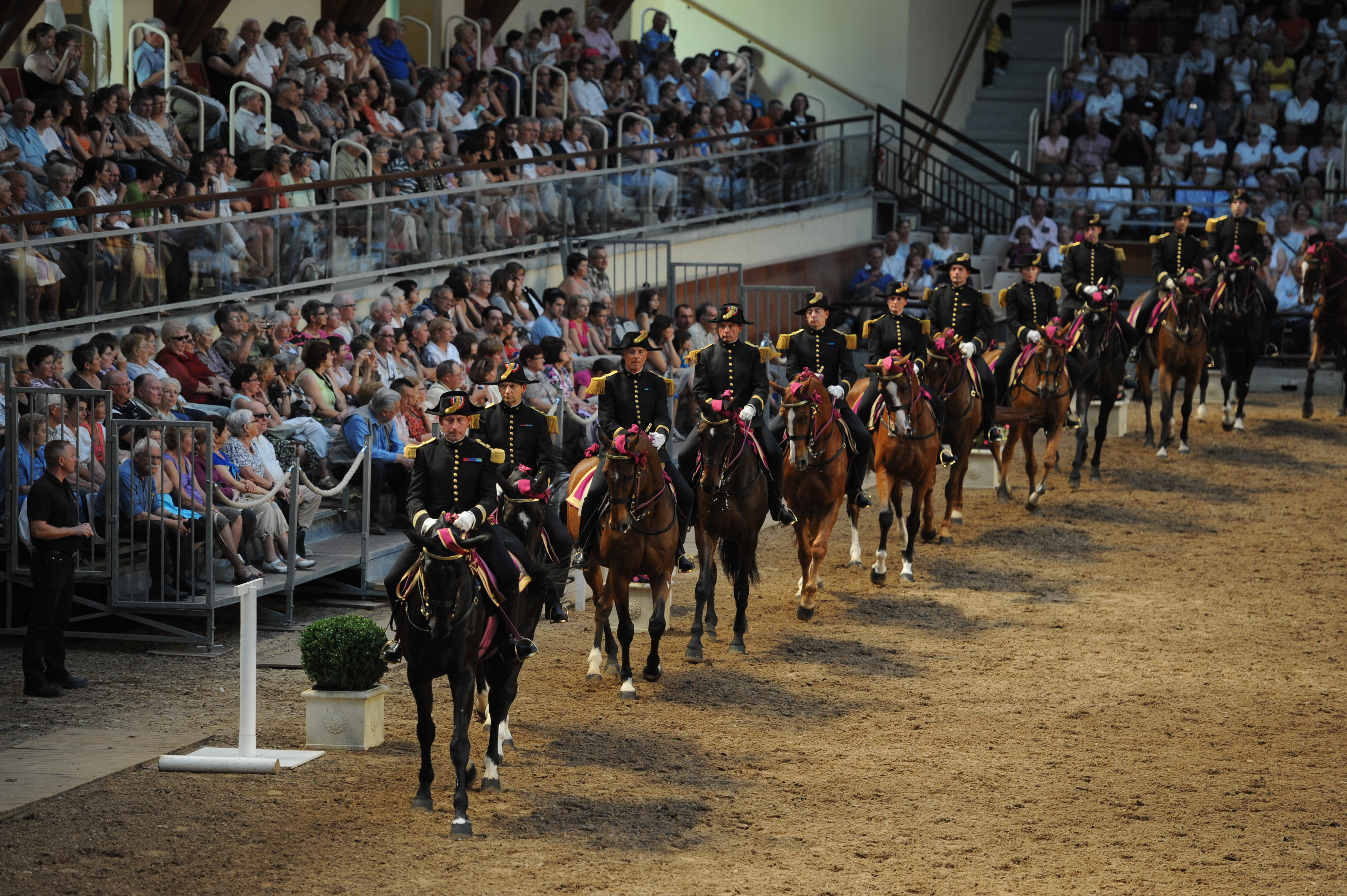 This photograph was taken by a Wikipedian, or provided by the Cadre noir, during a special day in May 2012 English | français | +/−